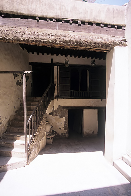 Court of the Ibn Luqman house, el-Mansura, Egypt